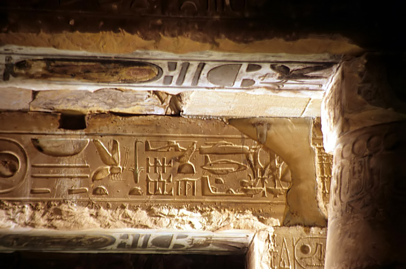 Architrave in the column hall, but no tanks and planes, Temple of Seti I, Abydos, Egypt